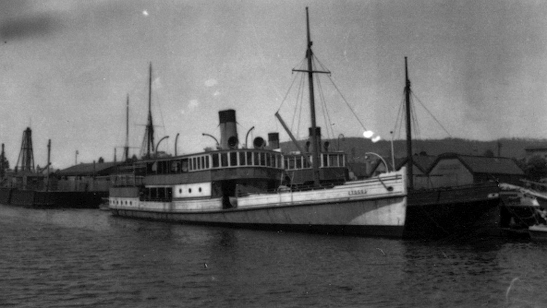 Ferry Steamer Togo